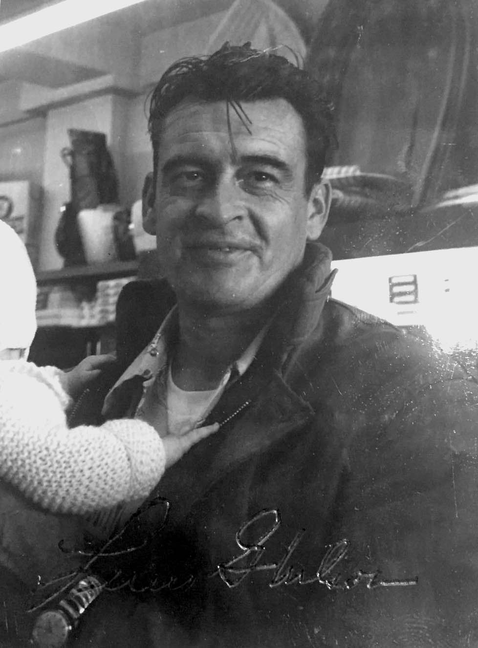 Lewis Wilson, the first actor to play Batman, posing with his son Michael.